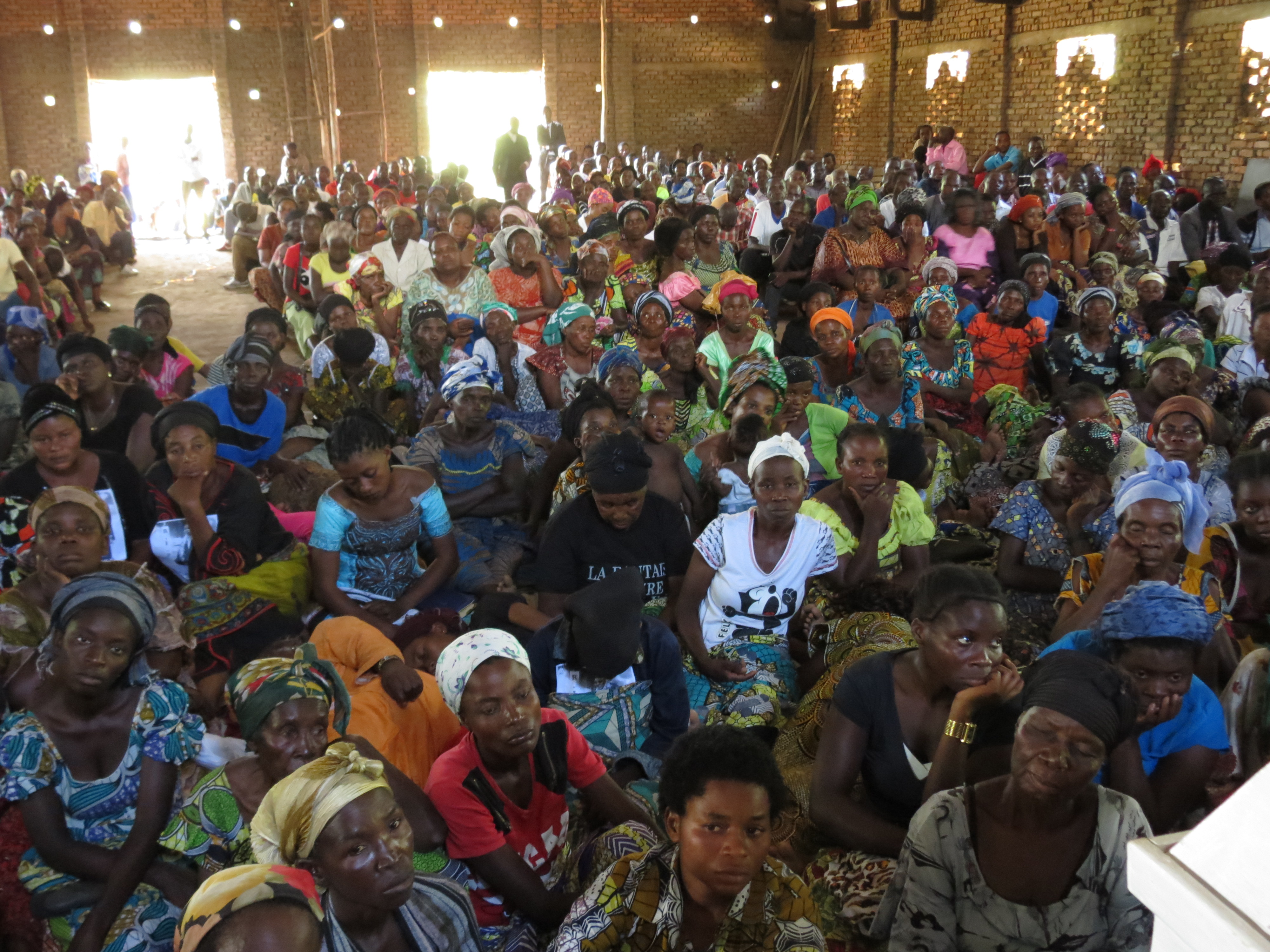 This is an image of "African people at work" from Burundi